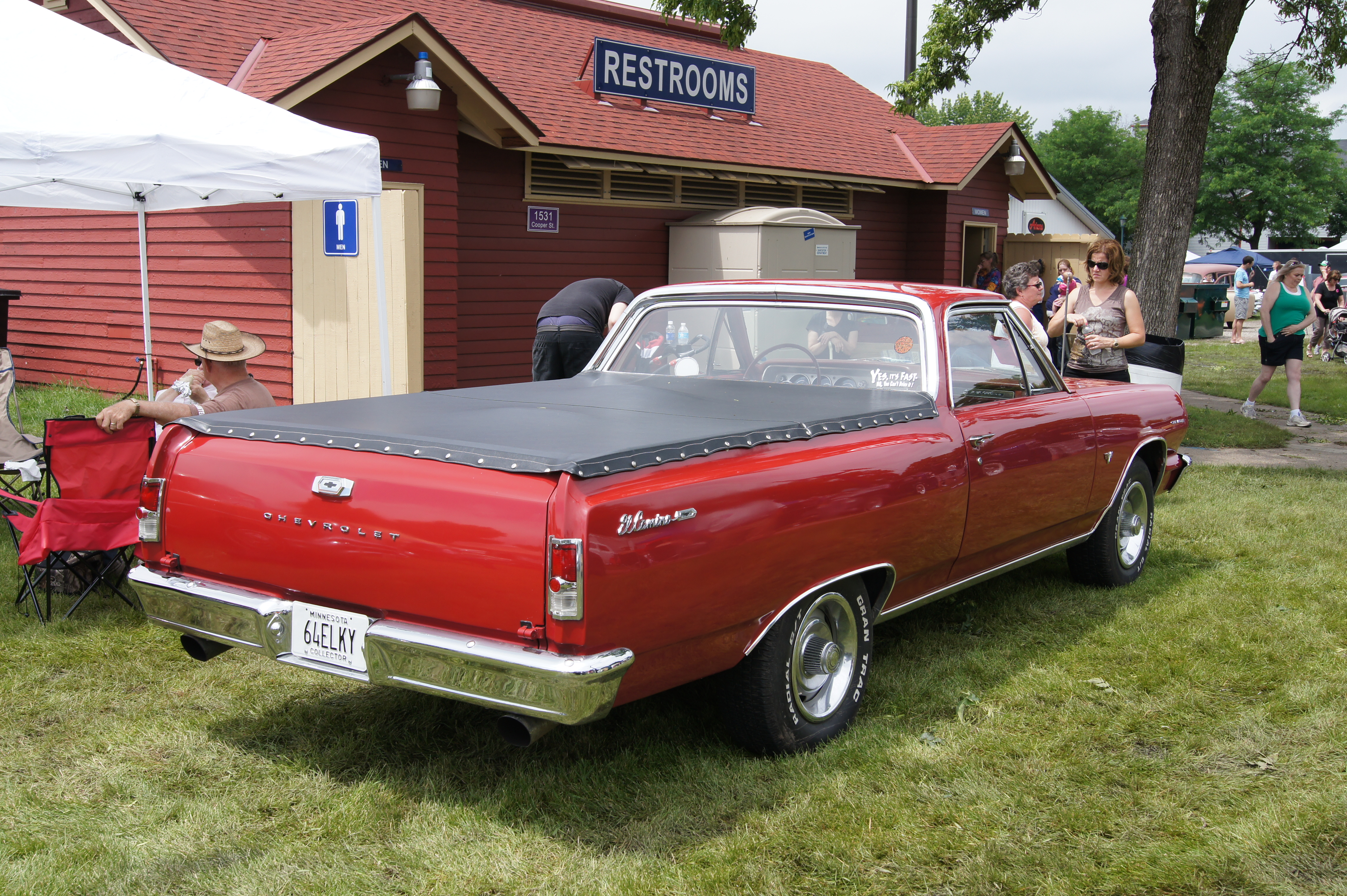 MSRA “BACK TO THE 50′s” 40th ANNIVERSARY June 21-23, 2013 State Fairgrounds St. Paul Minnesota More Car Pictures